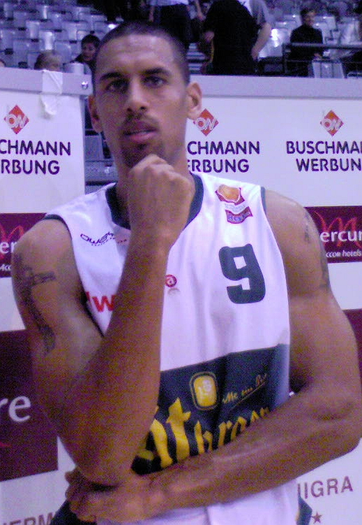 Josh Almanson, basketball player